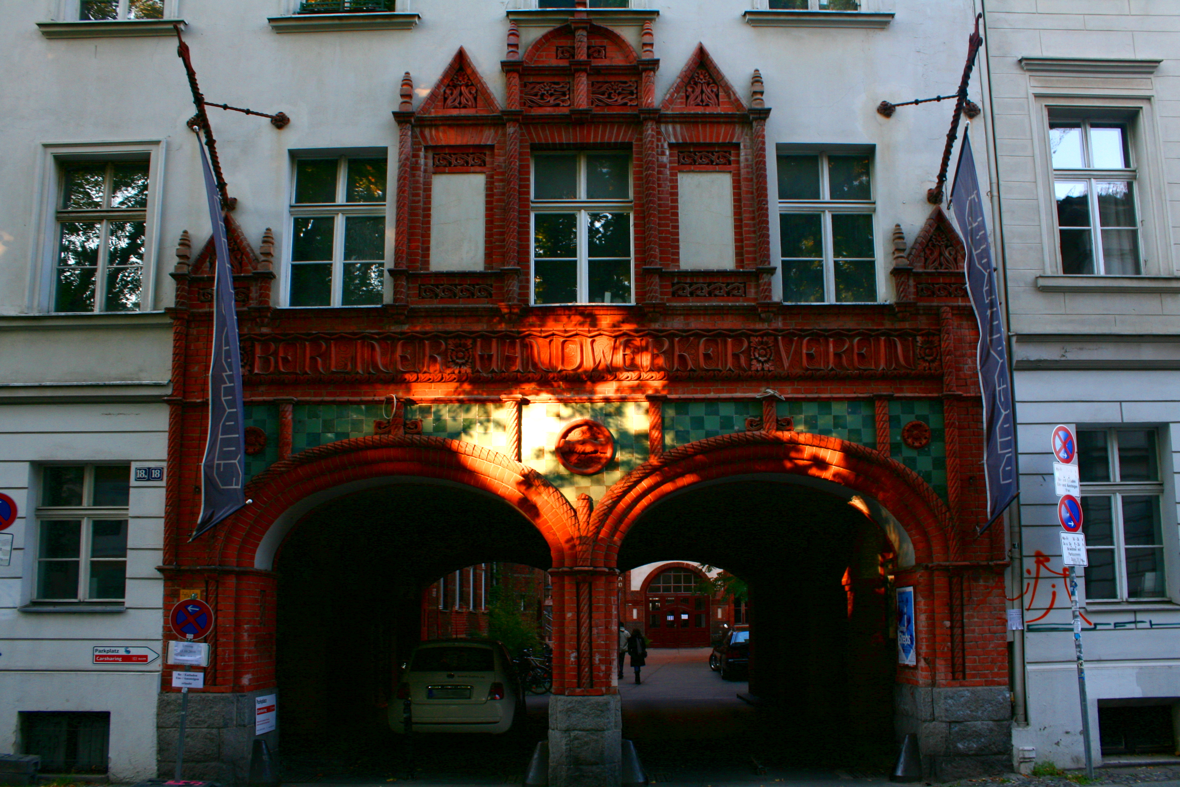 Mainentrance of the Handwerkervereinshaus (Sophienstraße, Berlin-Mitte, Germany), home to the Sophiensaele